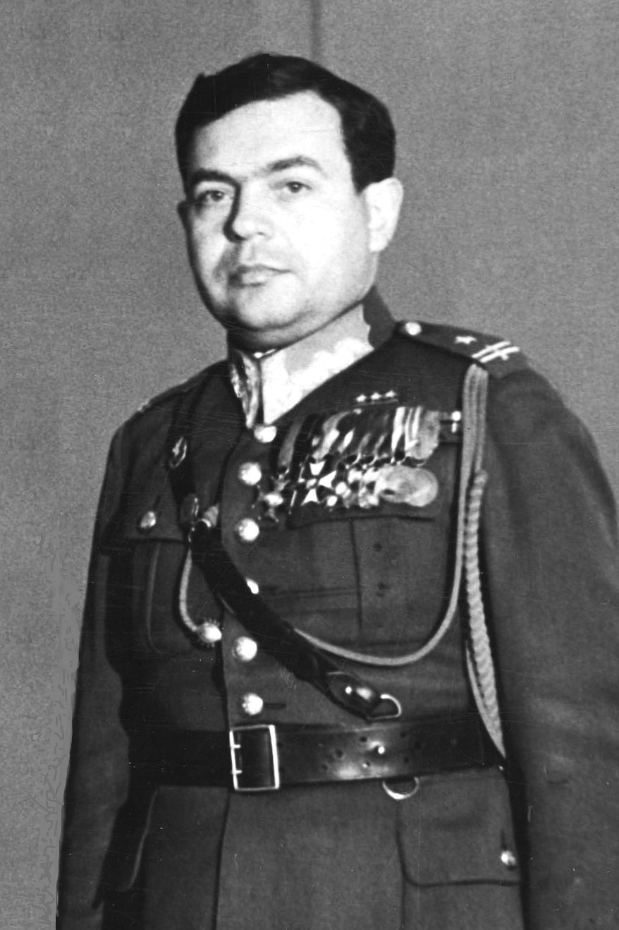 Edward Czuruk (1897-1981), a colonel of Polish Army (cropped)